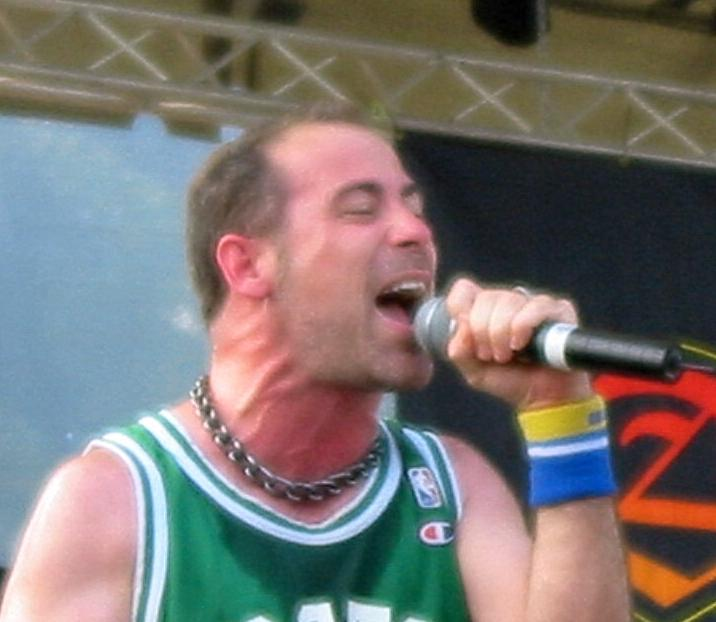 This picture was taken by me, at the Evolution Festival in Italy, 2006, during an Armored Saint concert.